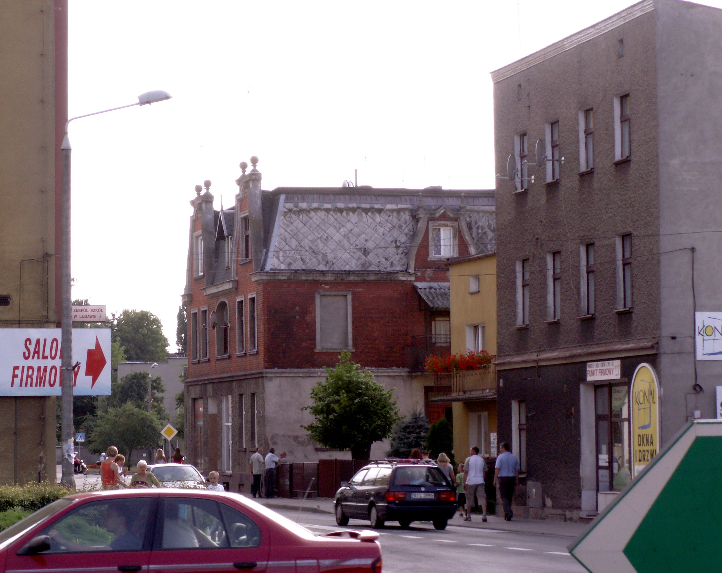 Lubawa, Poland